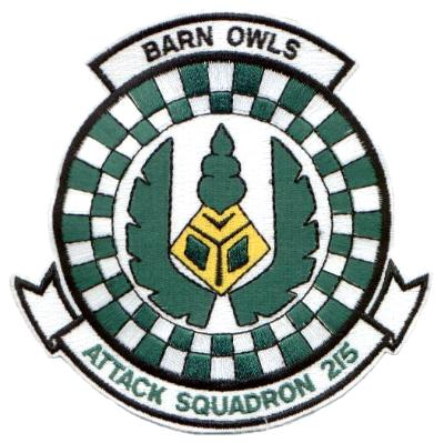 US Navy Attack squadron 215 Unit Insignia. This insigina was created by Airman AD Wayne J. Phair aboard the USS Lexington (CVA-16) in port in San Diego, California (USA) ,in 1958 or 1959. They were not called Barn Owls then. The center figure was a knights helmet with two feather plumes one on each side of the helmet looking straight at you. This figur has been changed from the original one that was painted on the ready room door by Airman Phair.